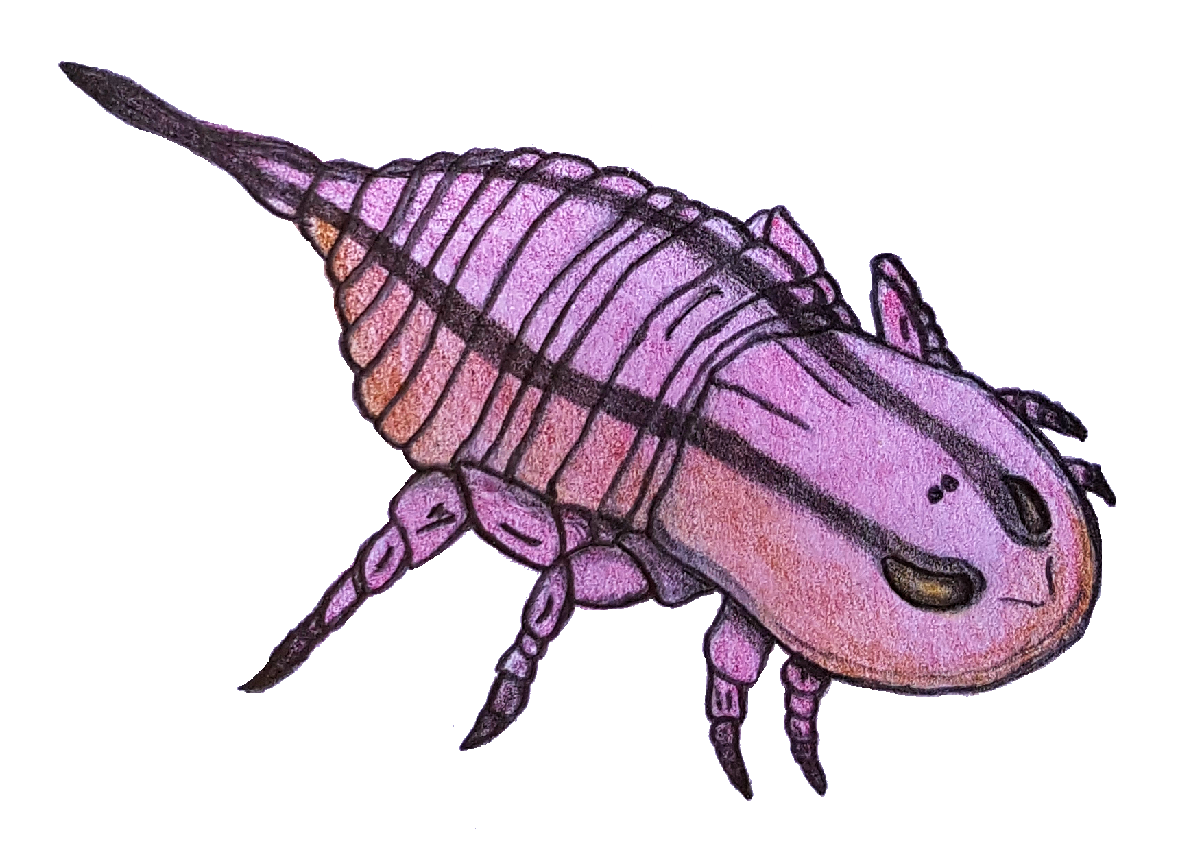 Life restoration of basal stylonurine eurypterid Brachyopterus, follows